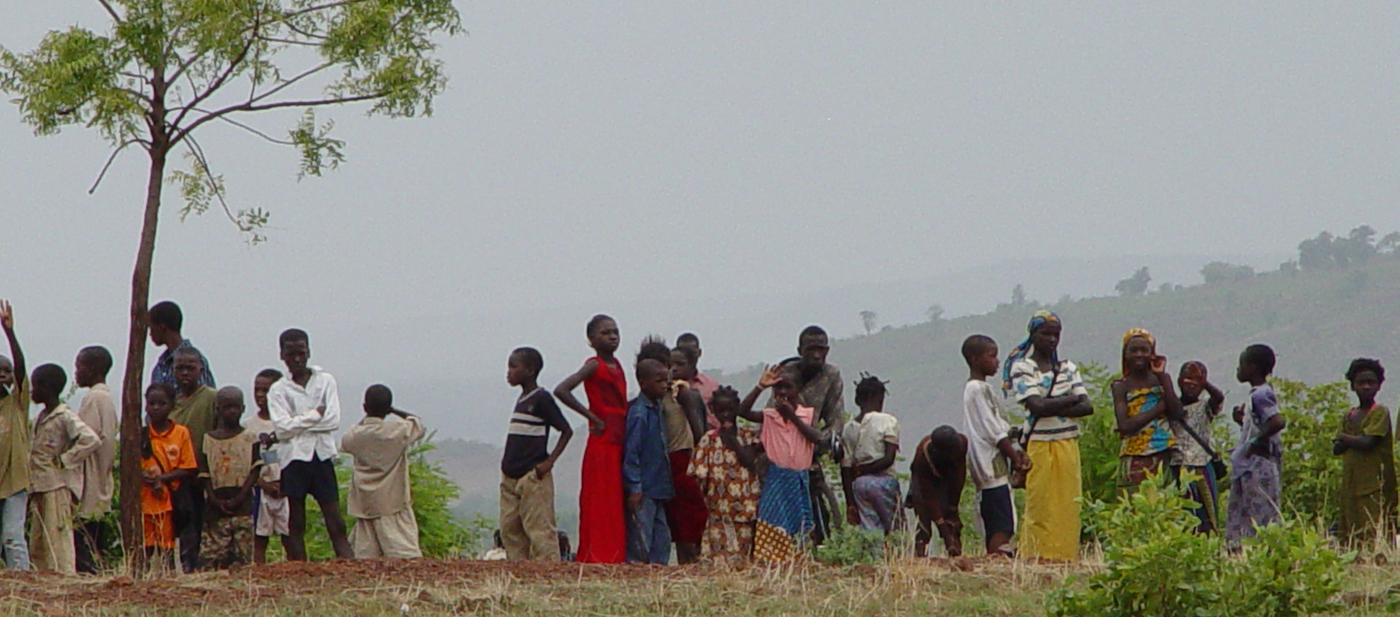 Approximately 200 local Malian civilians showed up at the landing zone to watch a display of military parachuting skills delivered by the Airmen of the 352nd Special Operations Group at Bamako, Mali June 14. U.S. Air Force, U.S. Army and Malian Army personnel took part in the last training event of the joint combined exchange training